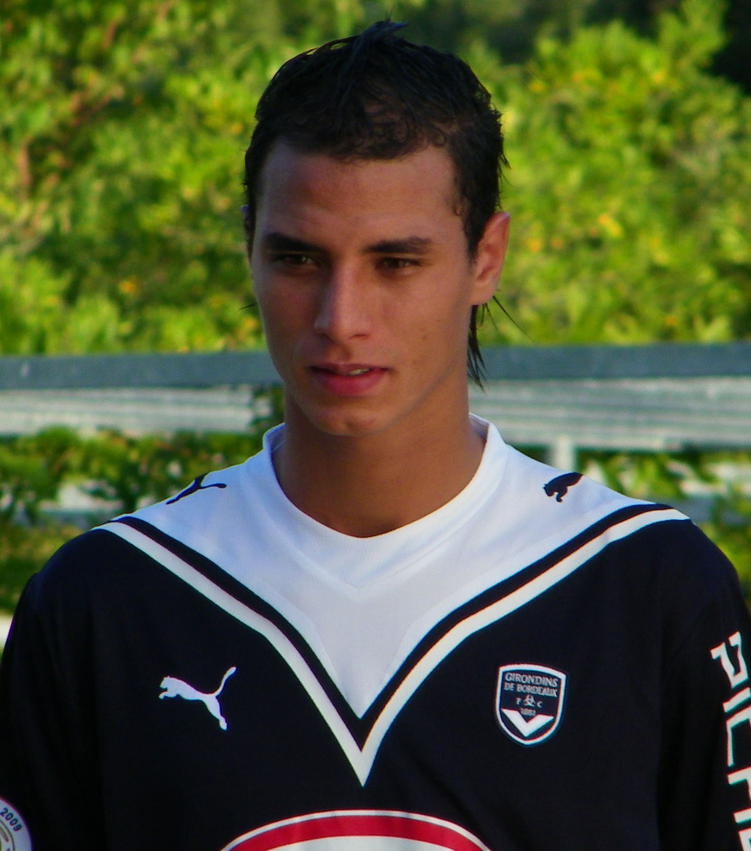 Marouane Chamakh, player at FC Girondins Bordeaux. Taken by Valentin Trijoulet. Public domain.